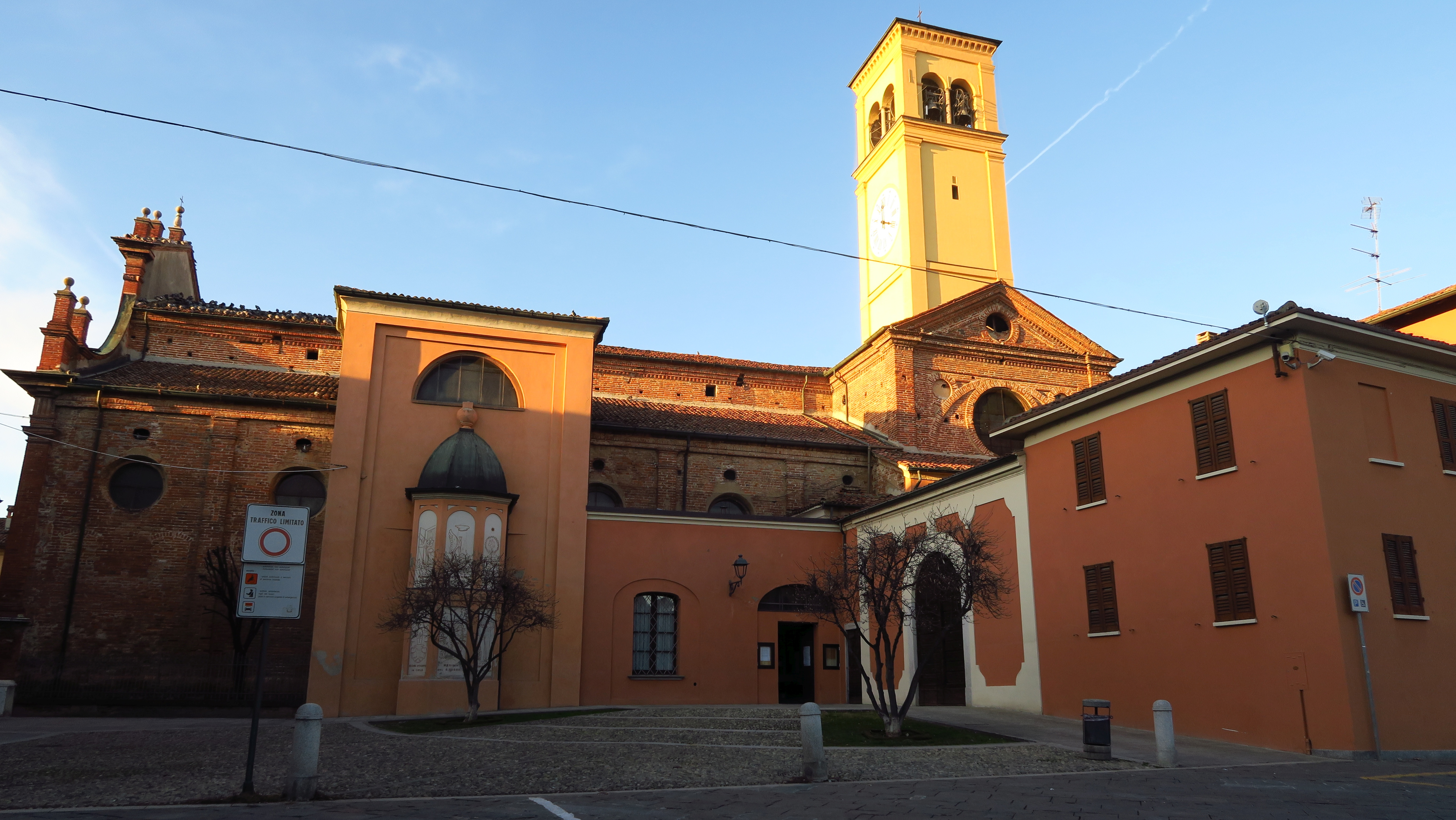 Chiesa San Biagio (Codogno), facciata laterale